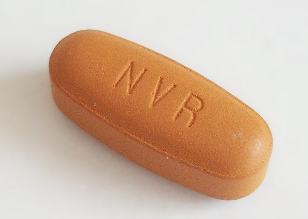 Glivec (Gleevec) film tablet made by Novartis.